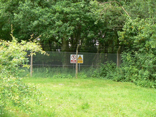 MOD Fence